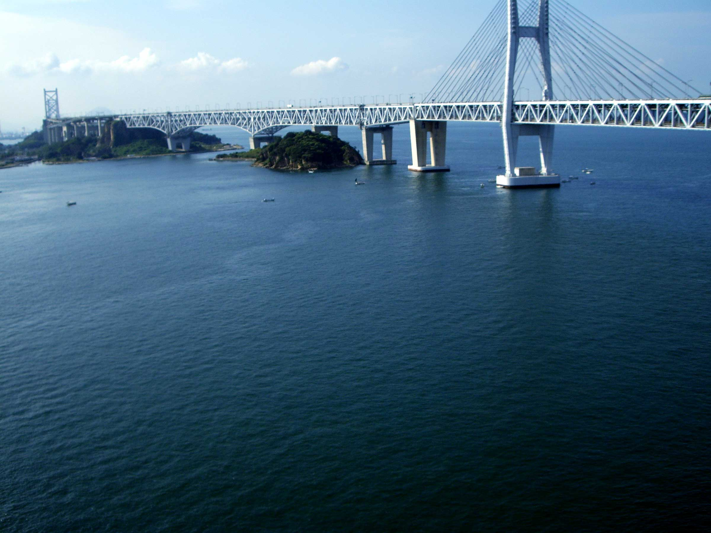 The Yoshima Bridge on the Great Seto Bridge in Japan